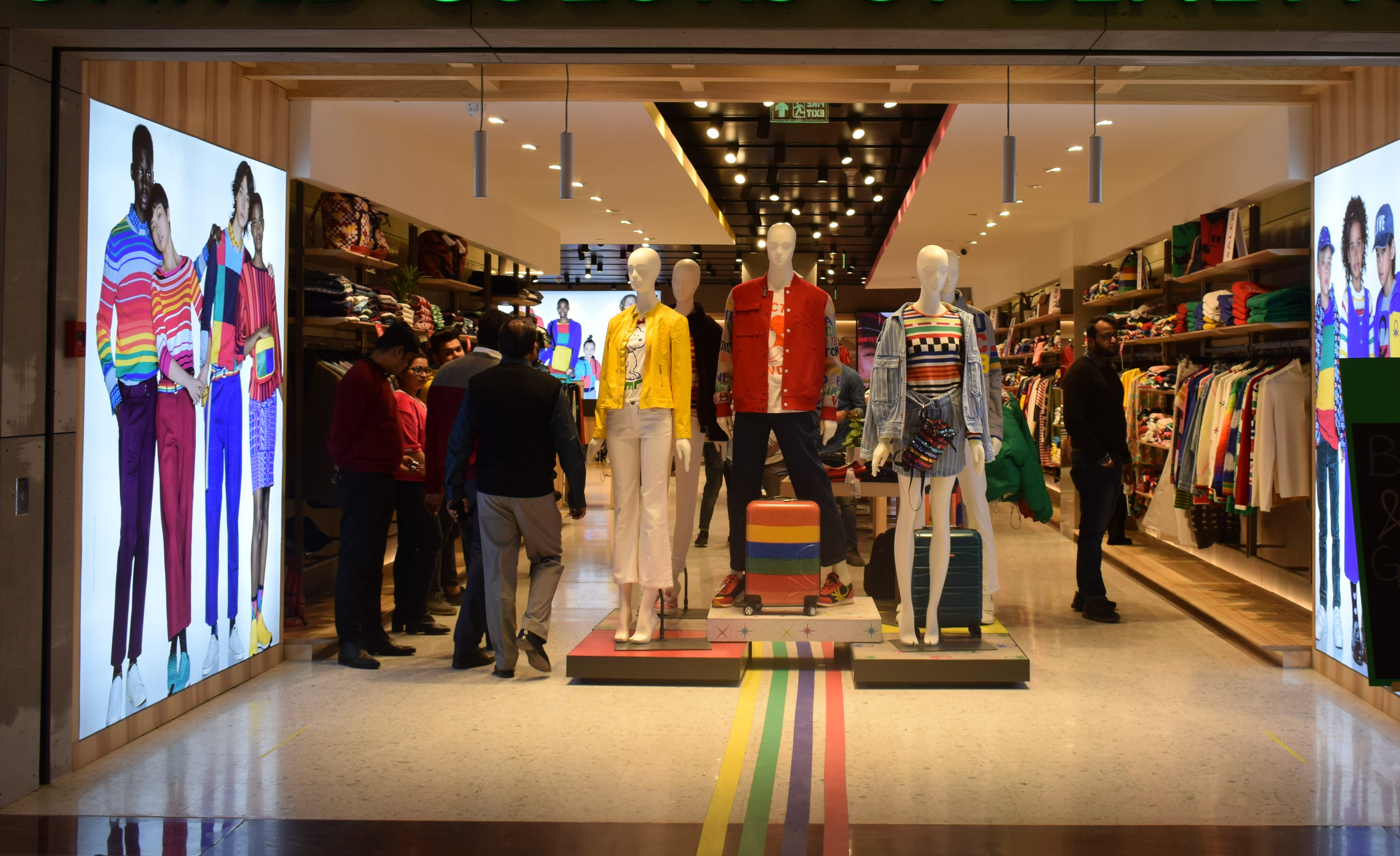 Concealed EAS solution are the way to go as it retains store VM Aesthetics while at same time providing the security to retail by protecting his merchandise against pilferage